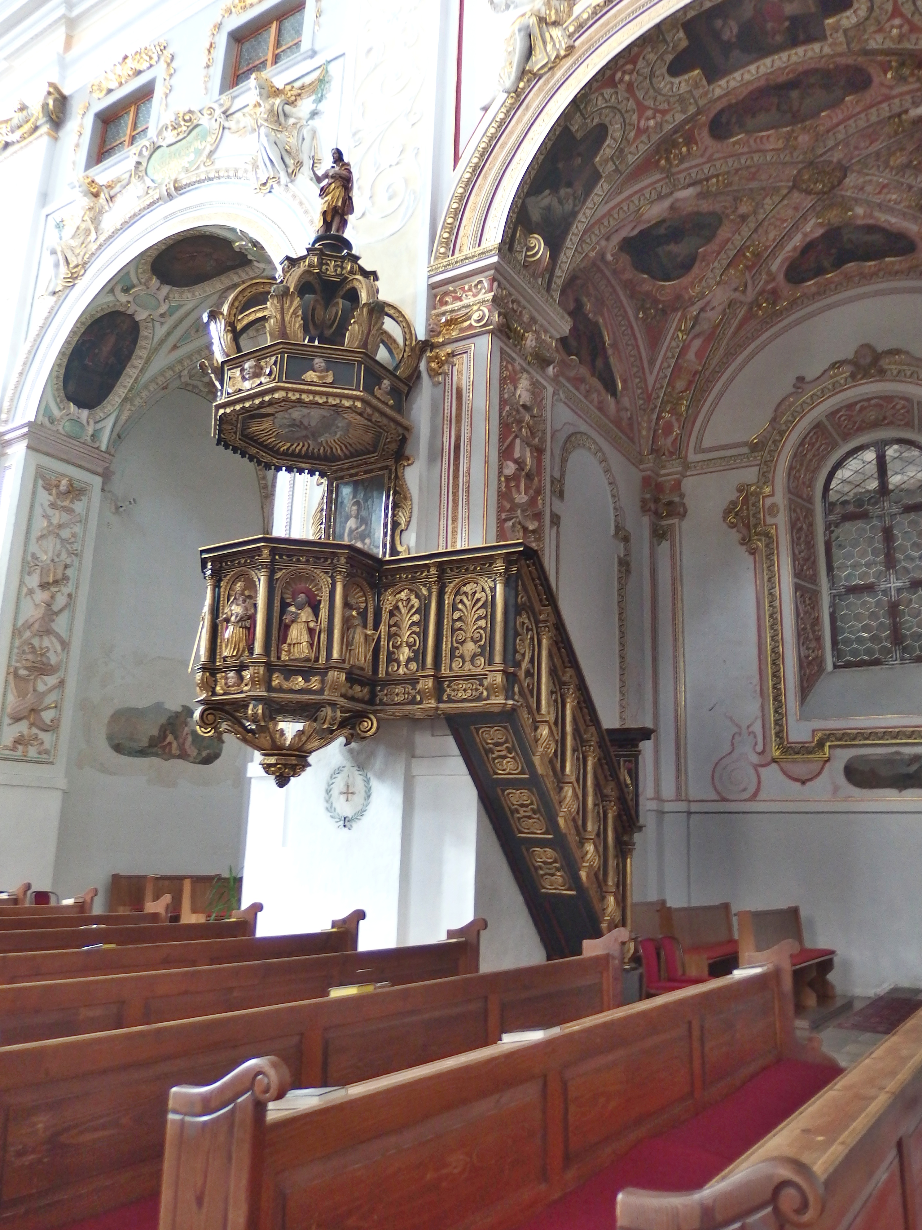 Trnava, Slovakia. Cathedral of St John the Baptist.